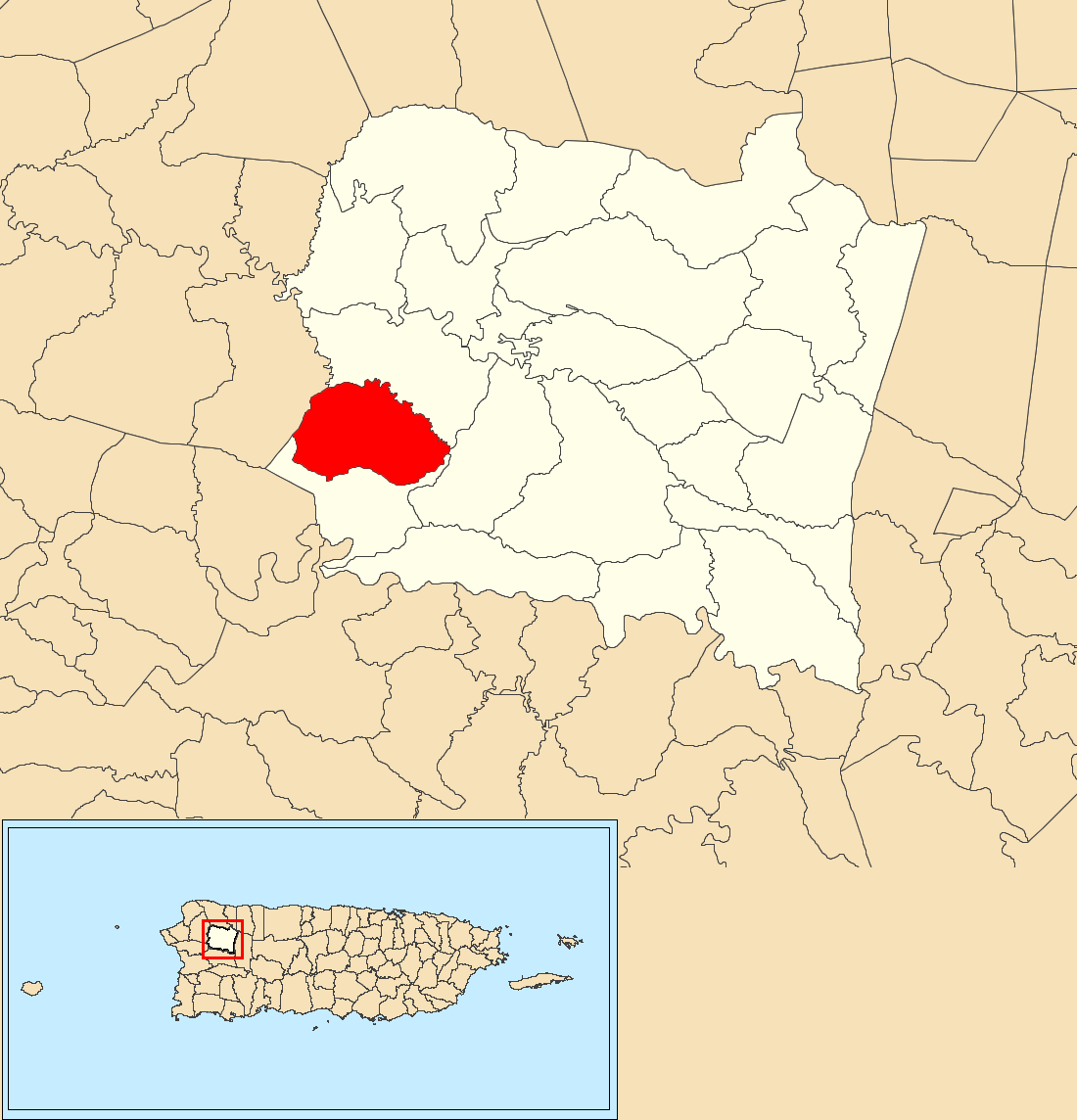 Sonador, San Sebastián, Puerto Rico locator map